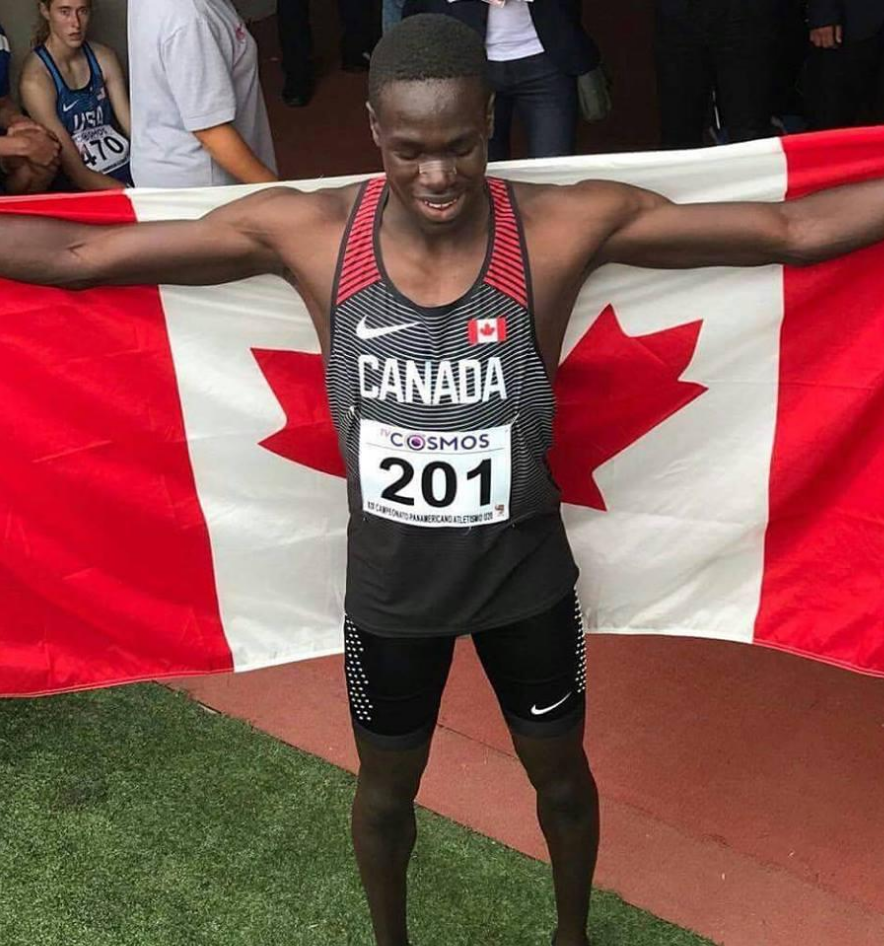 Arop at the Pan American Games in July, 2017.